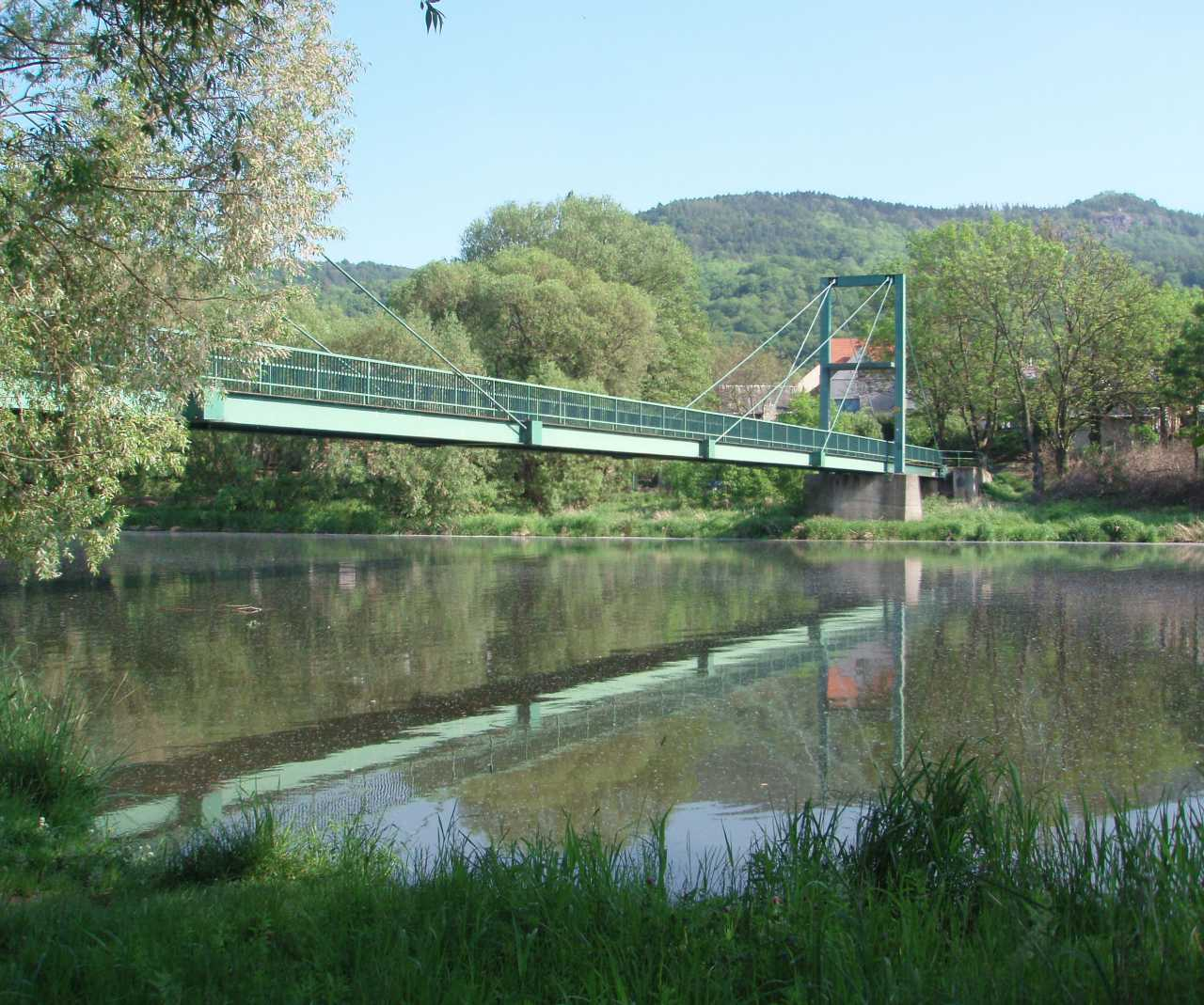 Footbridge over the Ohře river Klášterec.